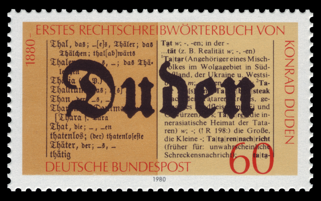 100 years of the Duden, the German dictionary Graphic designer: Froitzheim Ausgabepreis: 60 Pfennig First Day of Issue / Erstausgabetag: 14. Februar 1980 Michel-Katalog-Nr: 1039